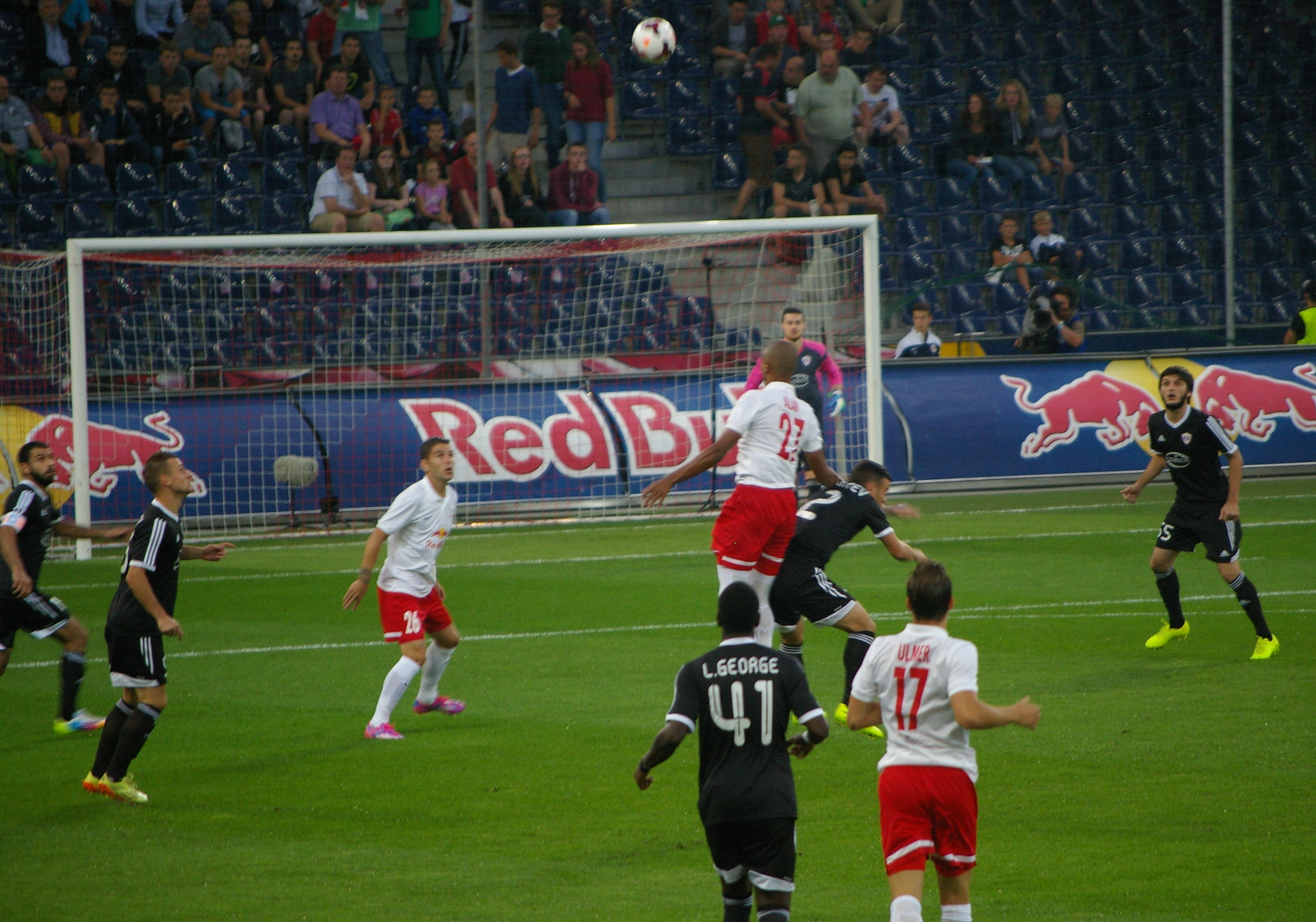 Championsleague Qualifier 3rd round